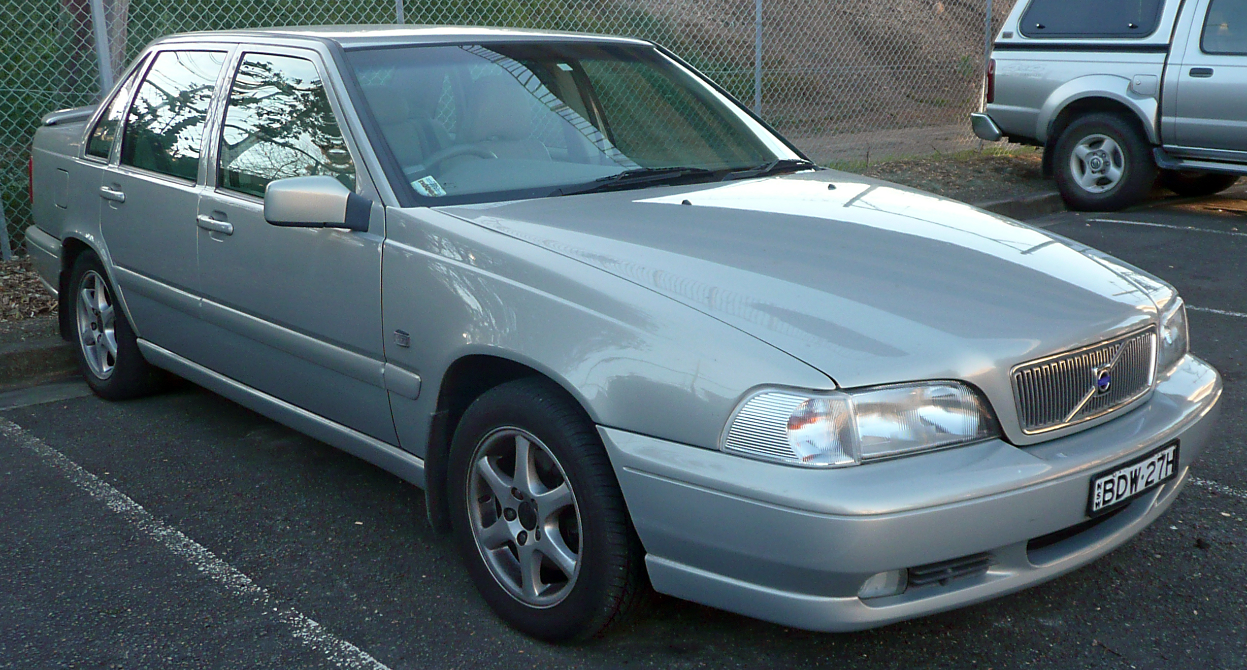 2000 Volvo S70 (MY00) T SE Sport sedan. The updated grille-mounted Volvo logo is part of the facelifted S70, released circa July 1999 in Australia. The rear spoiler and front fog lamps suggests this example is the "T SE Sport" trim level. Photographed in Sutherland, New South Wales, Australia.